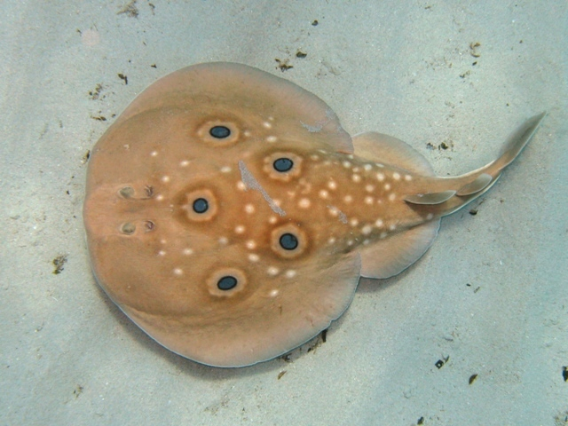 Common torpedo (Torpedo torpedo) off Corsica, France.